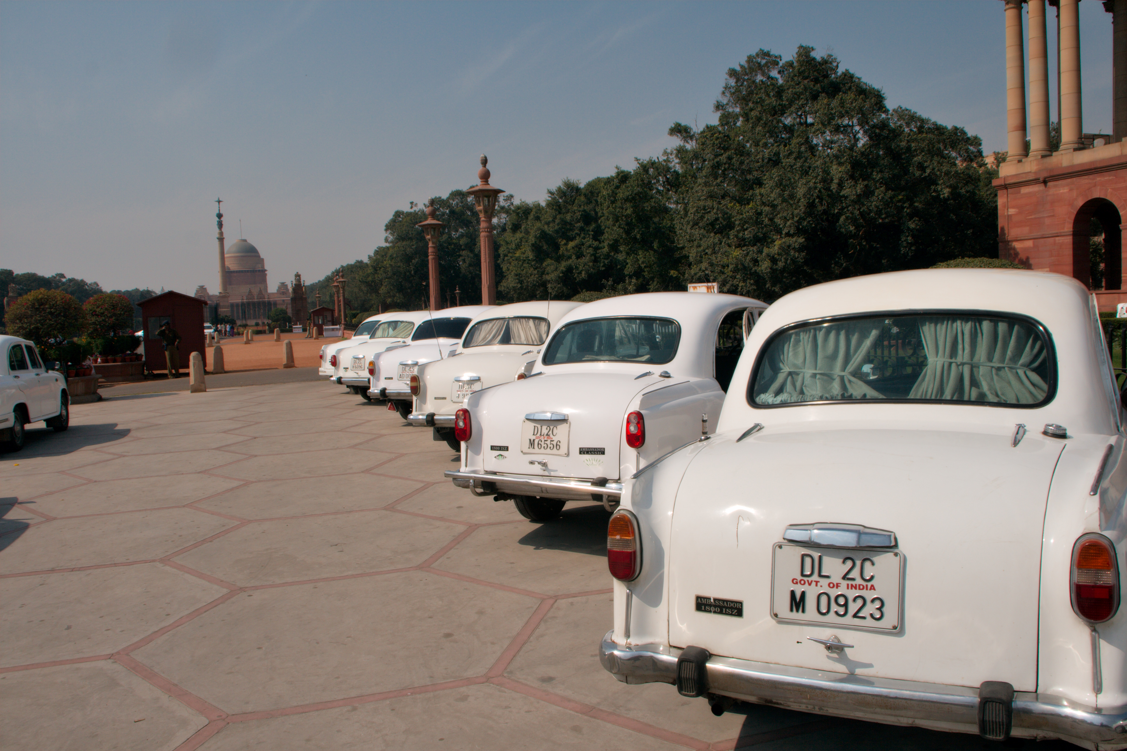 This part of New Delhi that was built by the british is filled with parliament buildings and wide avenues. The Rajpath is similar to the Champs Elysse in Paris as it's a wide avenue ending with a Arc de Triump at the end. My french spelling is not what it used to be.. Rajpath meaning "King's Way" is the ceremonial boulevard for the Republic of India. It runs from Rashtrapati Bhavan through Vijay Chowk and India Gate to National Stadium, Delhi. The New Delhi avenue is lined on both sides by lawns with rows of trees and ponds. Unarguably, the most important stretch of road in India, where the annual Republic Day parade takes on January 26, Rajpath goes straight towards Raisina Hill, India's administrative center. Check out my travelblog at